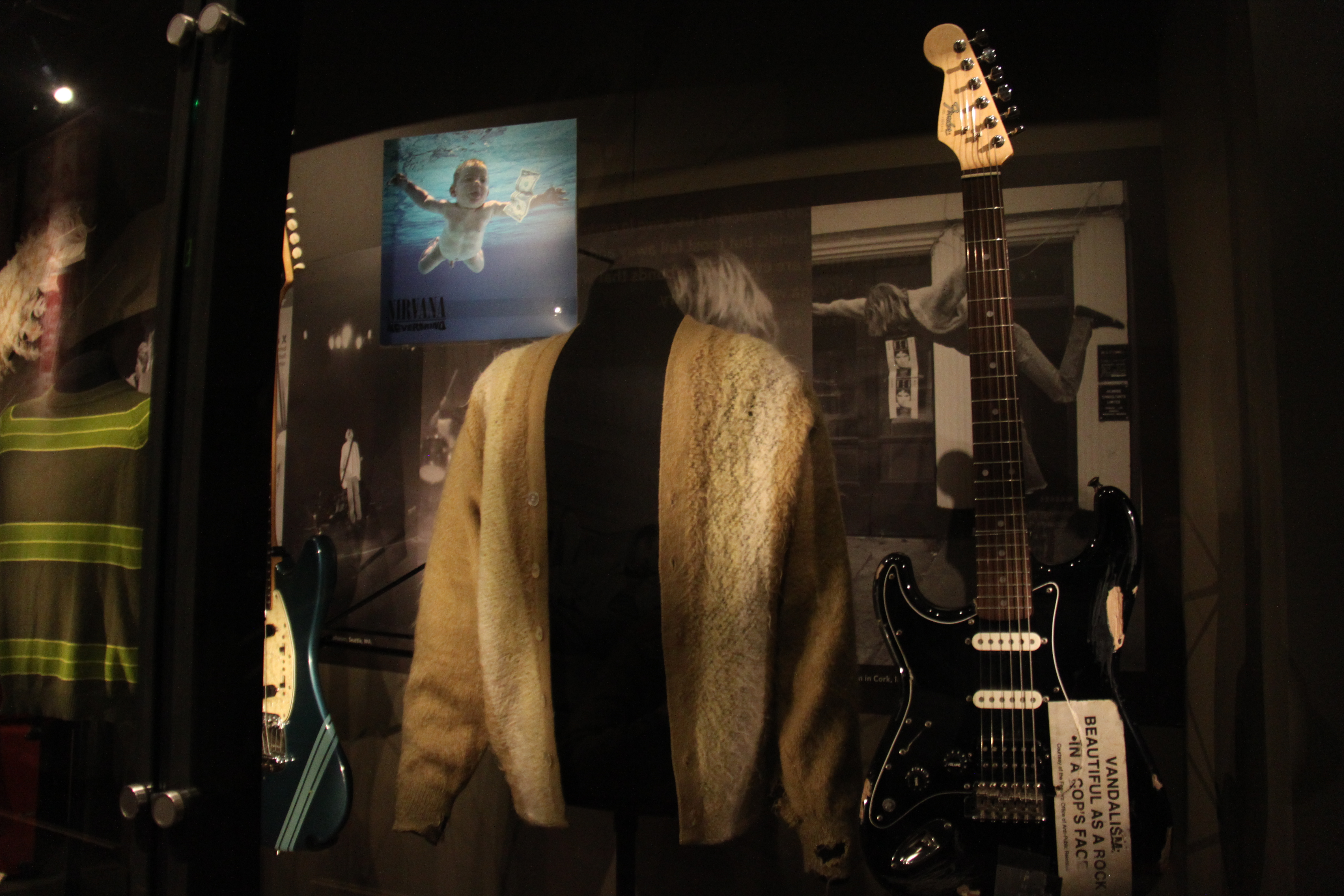 Experience Music Project/Science Fiction Hall of Fame, Seattle.